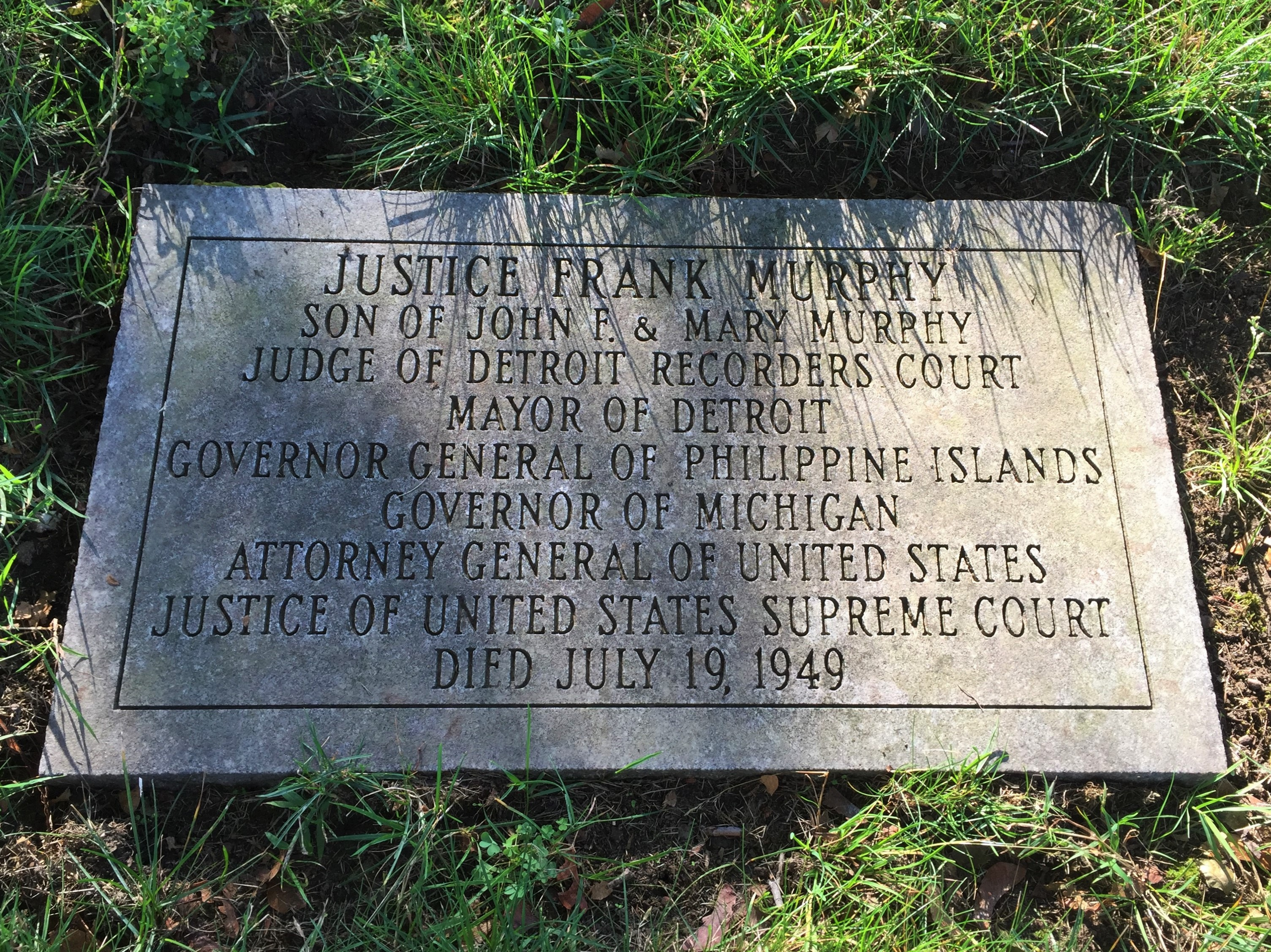 Headstone marking the grave of Associate Justice of the United States Supreme Court Frank Murphy (1890–1949) at Our Lady of Lake Huron Catholic Cemetery, Sand Beach Township, Huron County, Michigan, near Harbor Beach.